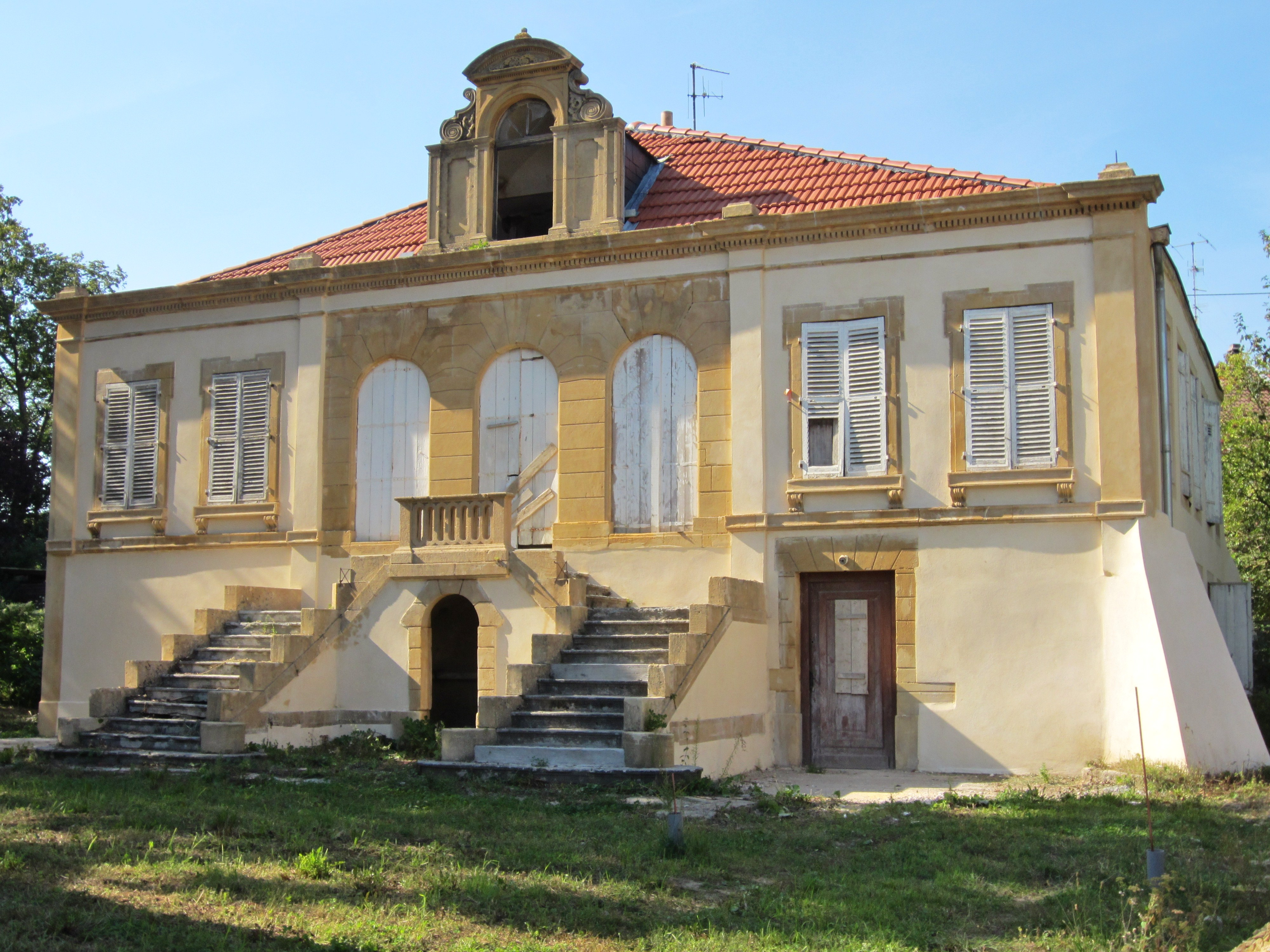 Description maison rucher Woippy Date2 September 2011Sourcemon appareil photoAuthorAimelaimePermission(Reusing this file) maison rucher Woippy